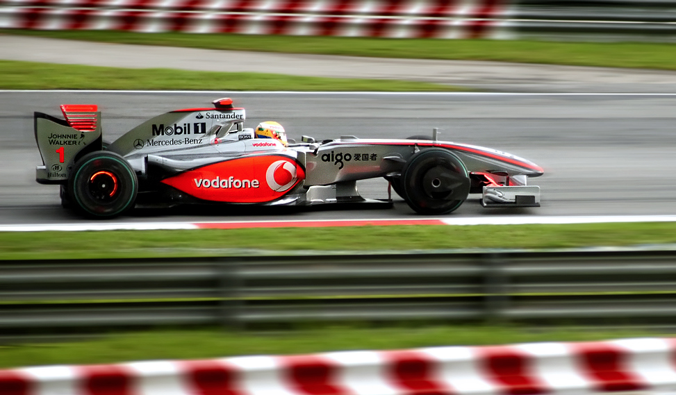 Lewis Hamilton at 2009 Malaysian Grand Prix, Sepang, Malaysia.